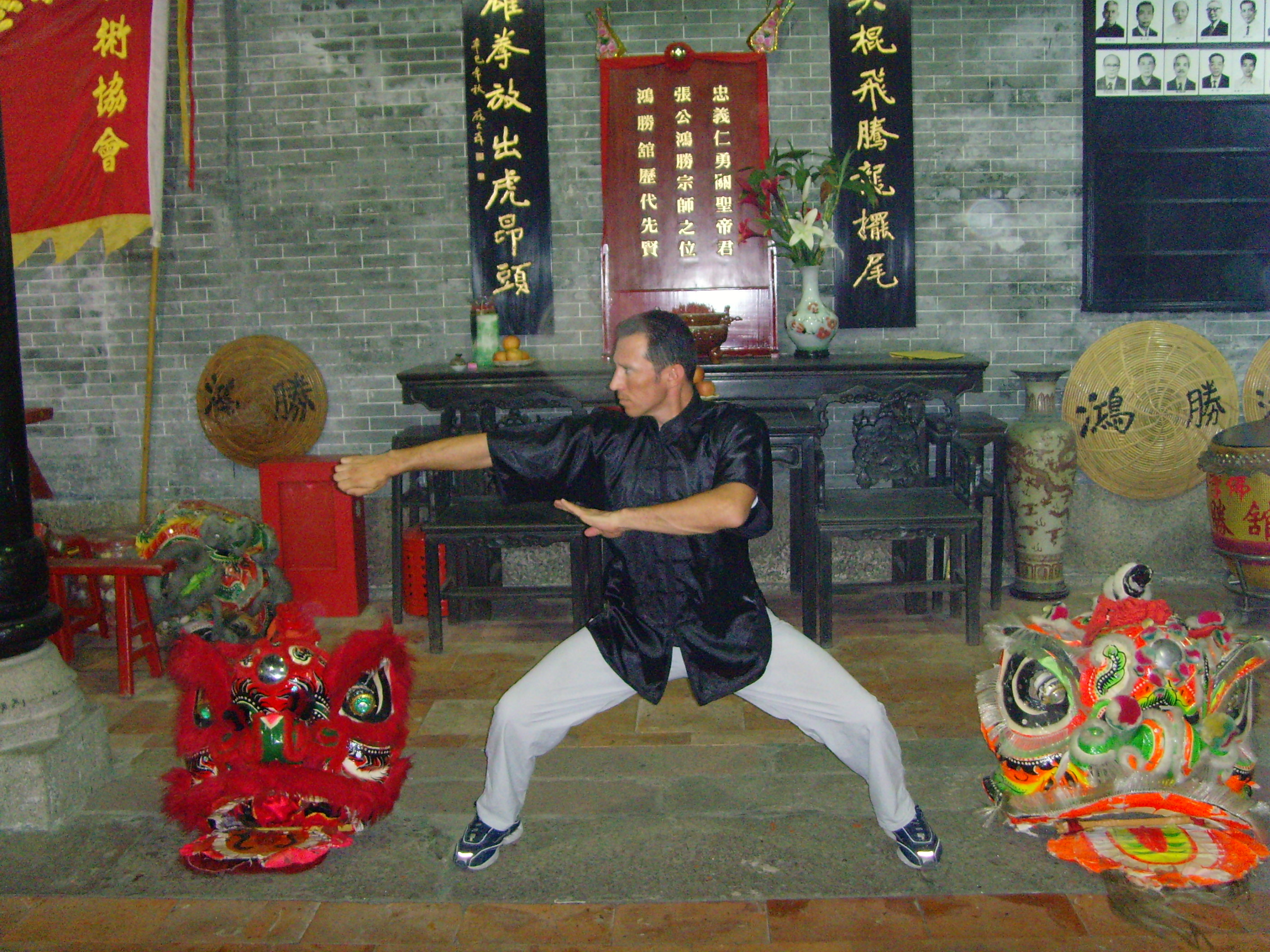 Sifu Alvaro Leon exhibited in position Mapu (Horse), the knock's "Chap Choy" (Fist Penetrating) at the museum of Choy Li Fat of the Hung Sing's house, in Fat-Sam (Foshan), China